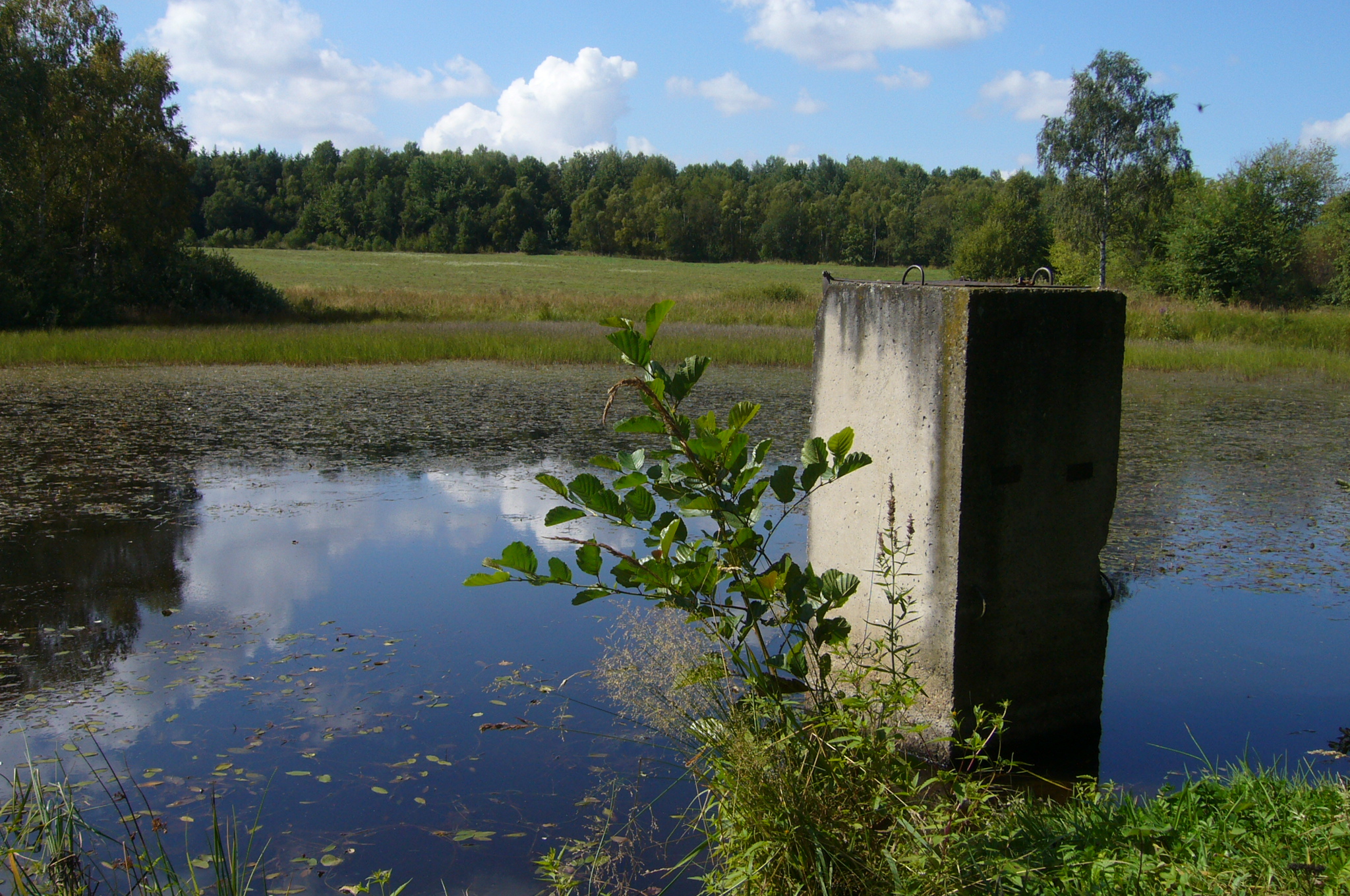 Protected area Plaviště